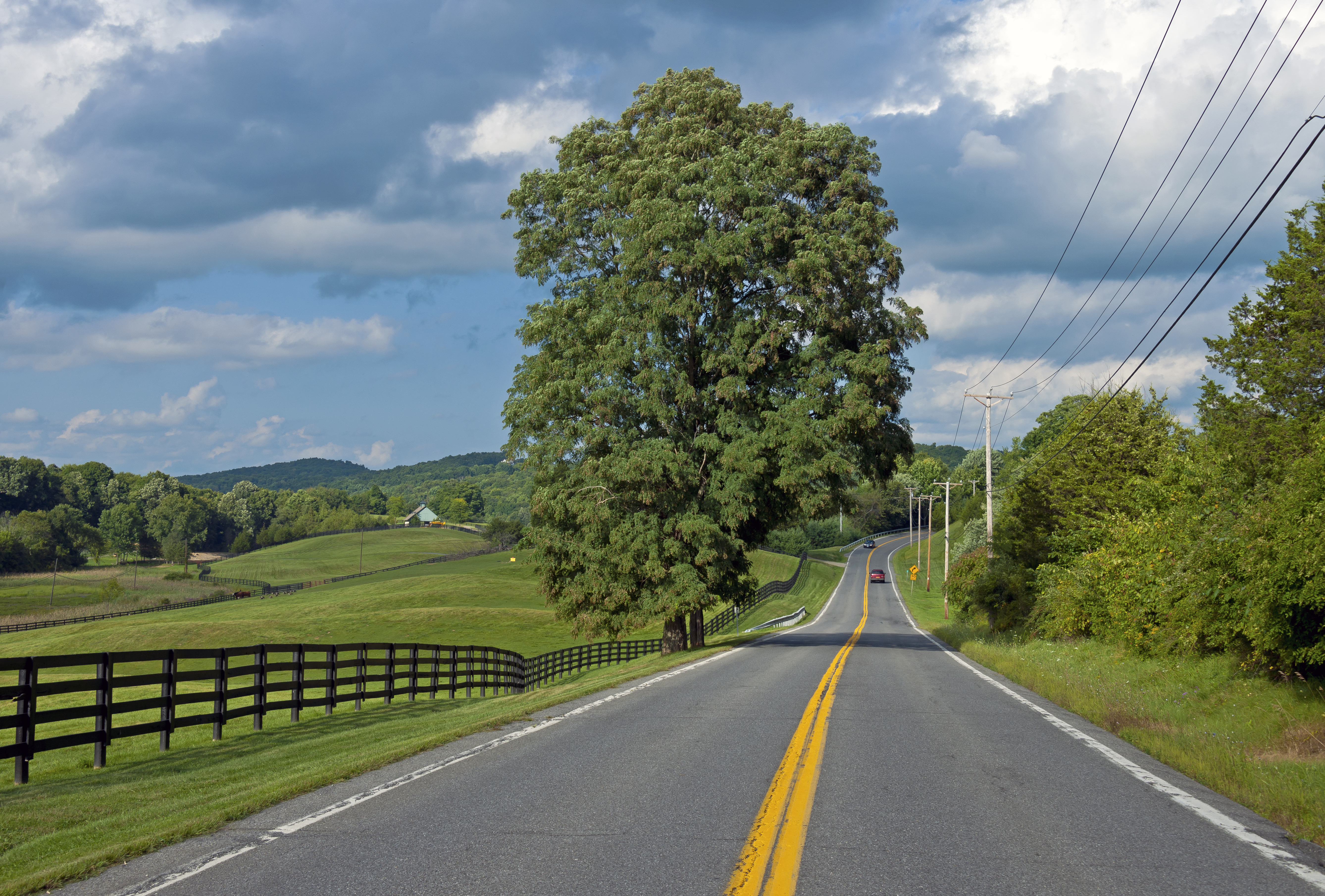 View looking along eastbound NY 199 roughly one quarter-mile east of eastern NY 82 junction at Hammertown in the town of Pine Plains (Compare with this image, taken from same spot almost two years earlier with digital P/S)